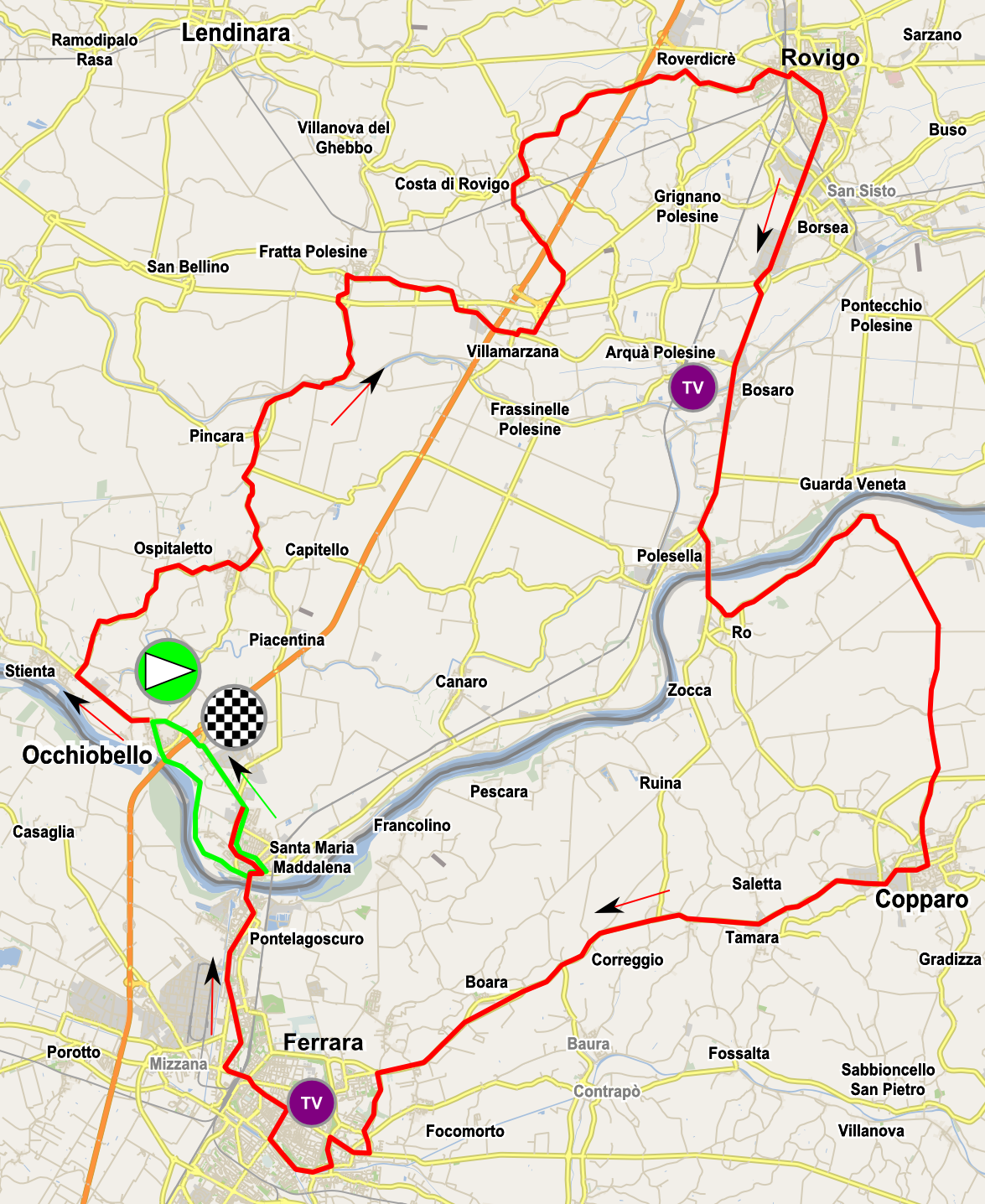 Map of stage 4 of Giro donne 2017.